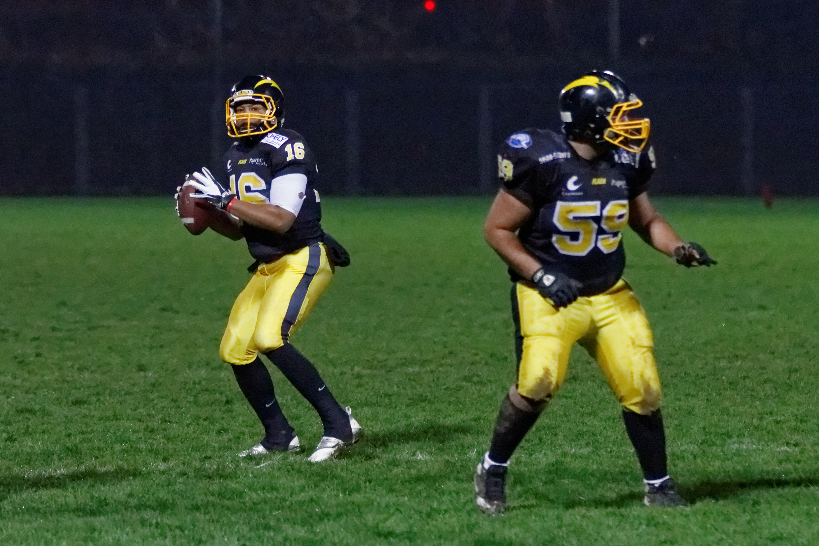 Flash vs Molosses, February 16th, 2013. Perez Mattison and Moustapha Chenna.